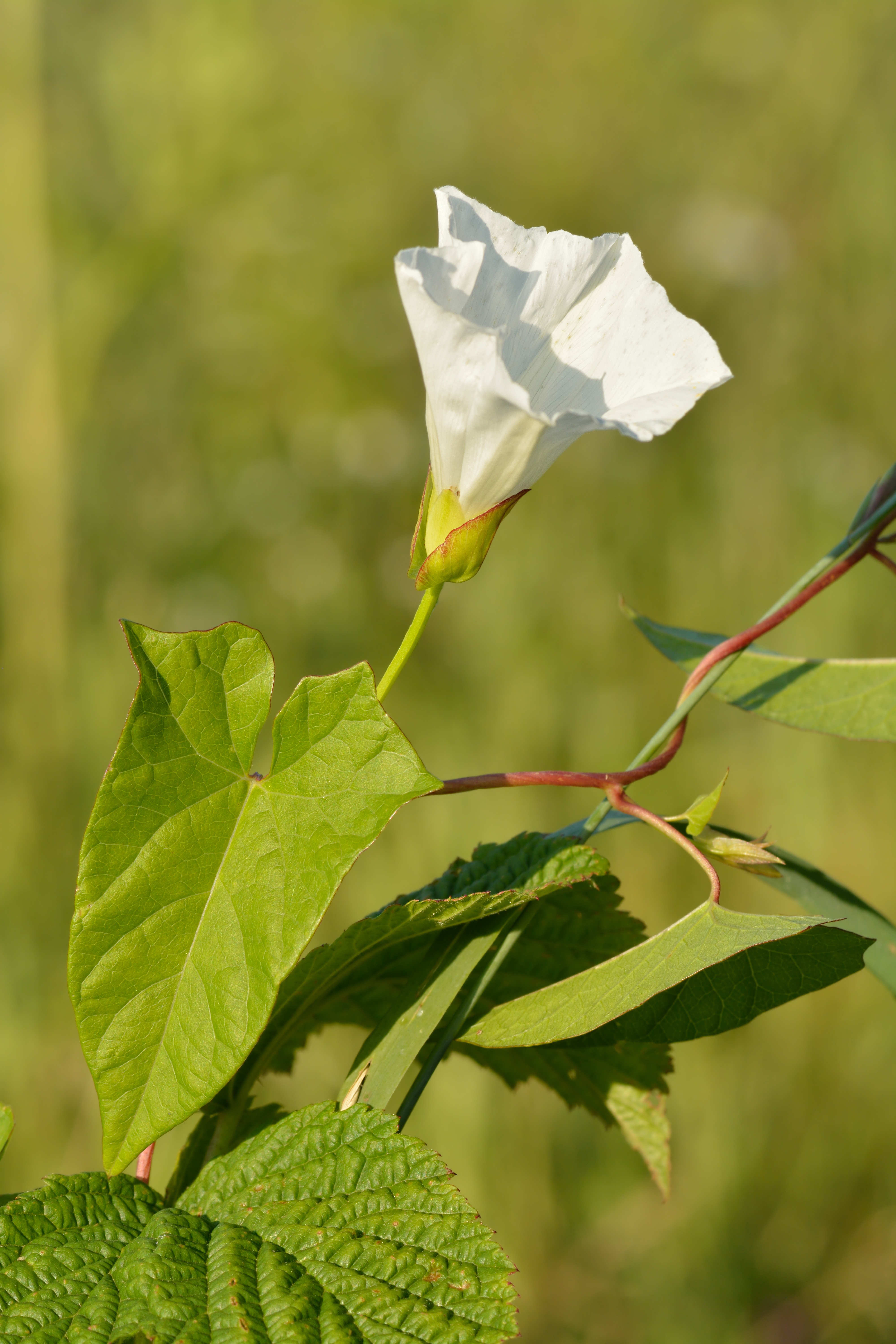 Larger bindweed (Calystegia sepium). Keila, Northwestern Estonia.